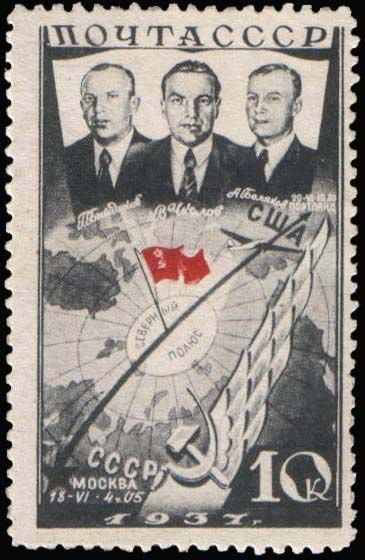 Stamp of the USSRː Aviators Gromov, Danilin, Yumashev and Flight Route. Issueː First Trans-Polar Flight from Moscow, the USSR, to Vancouver, Washington, the USA (Greater Portland, Oregon, the USA) over the North Pole by ANT-25 Plane (June 18-20, 1937)